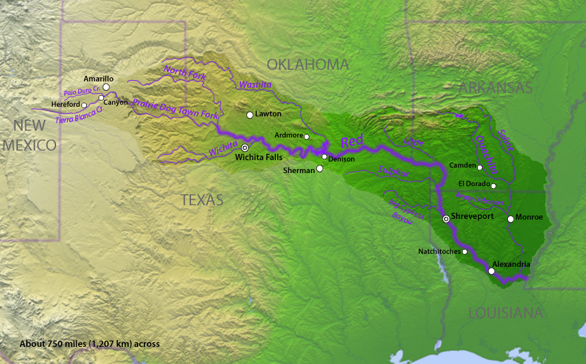 Map of the Red River of the South watershed, in the south-central United States. A tributary of the Mississippi River.